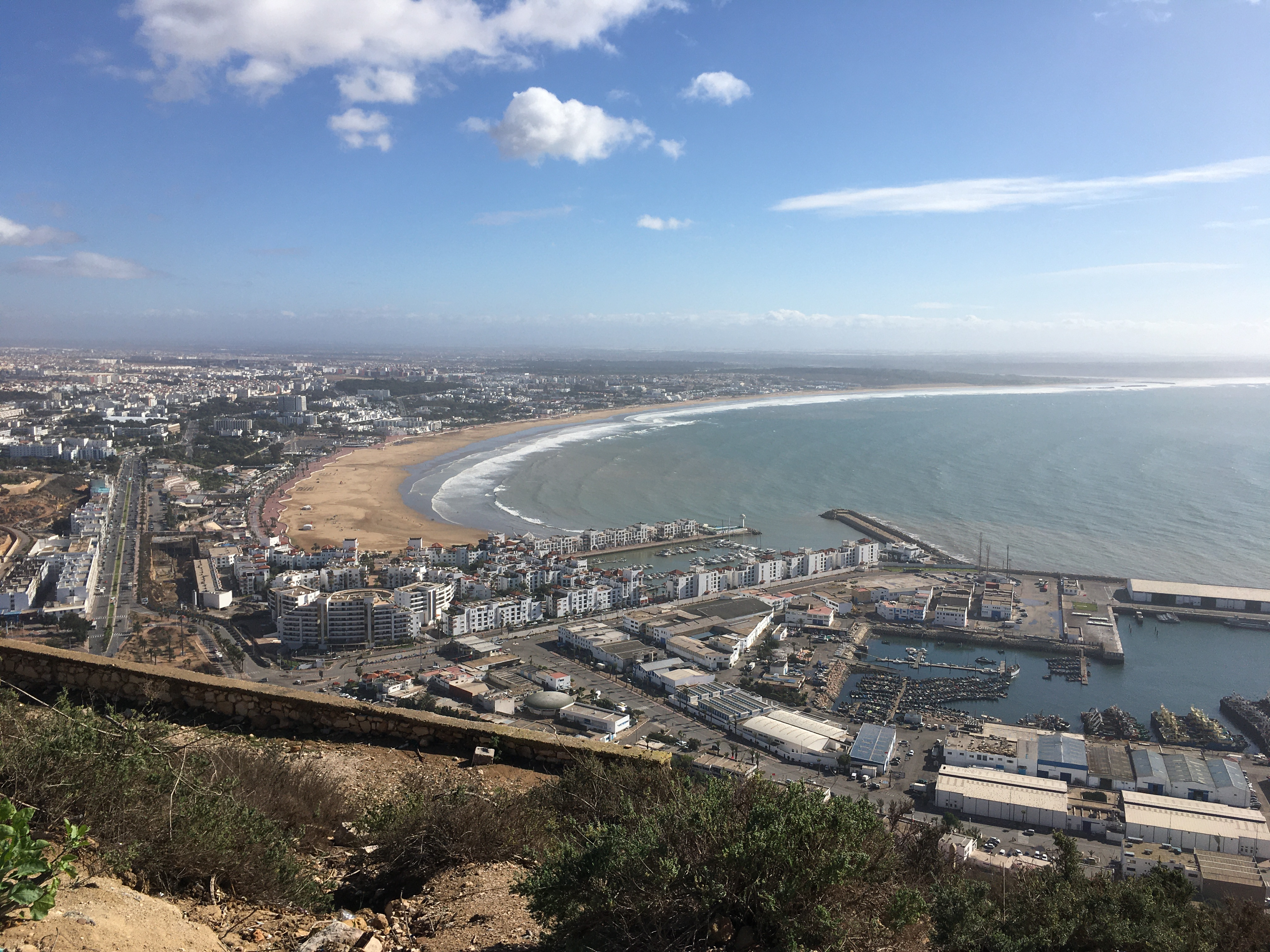 Agadir Bay, view from the casbah, Morocco